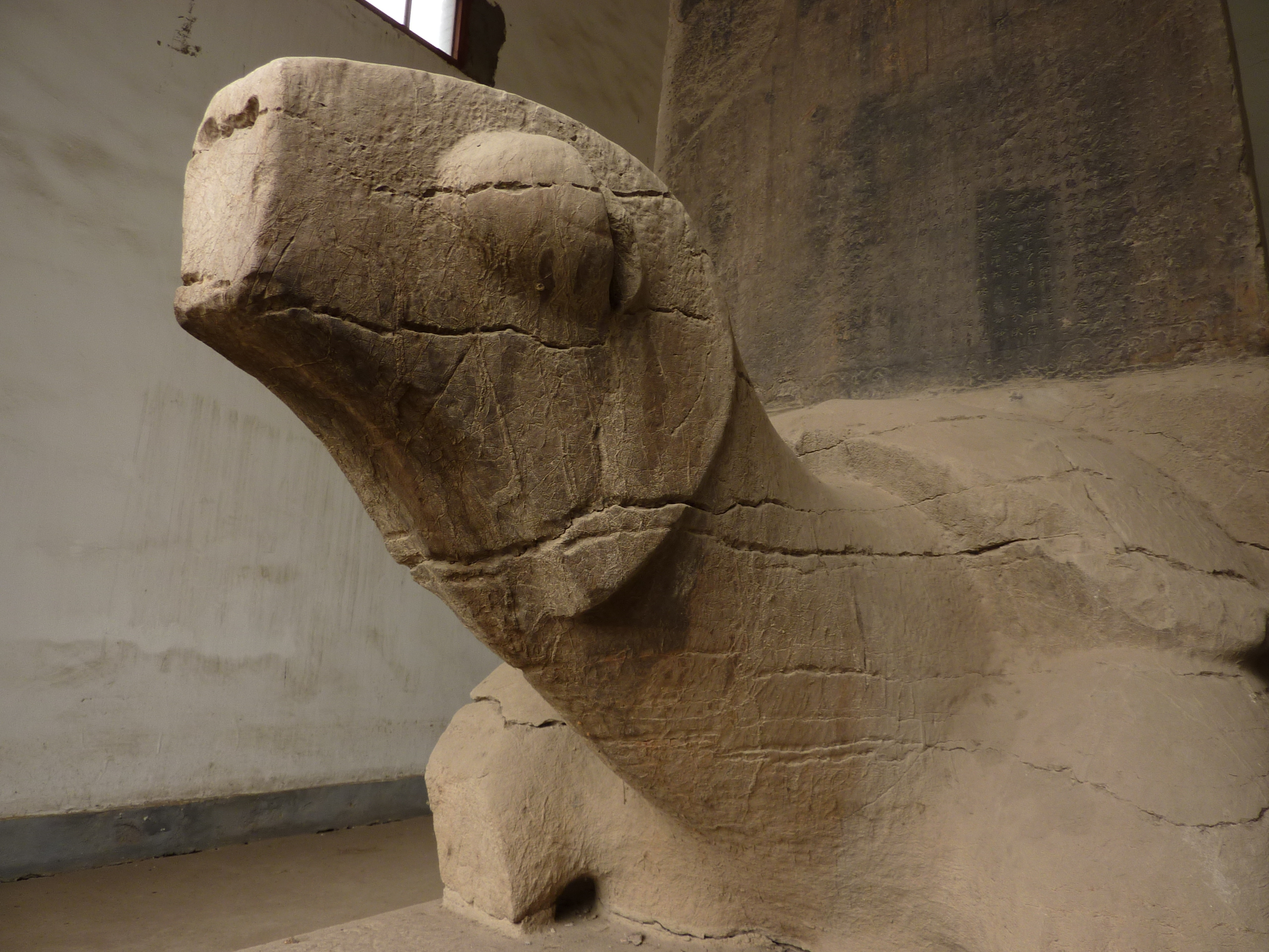 The statuary at the tomb of Xiao Dan. The best-preserved tablet-carrying tortoise is in the stone tower (built ca. 1956).